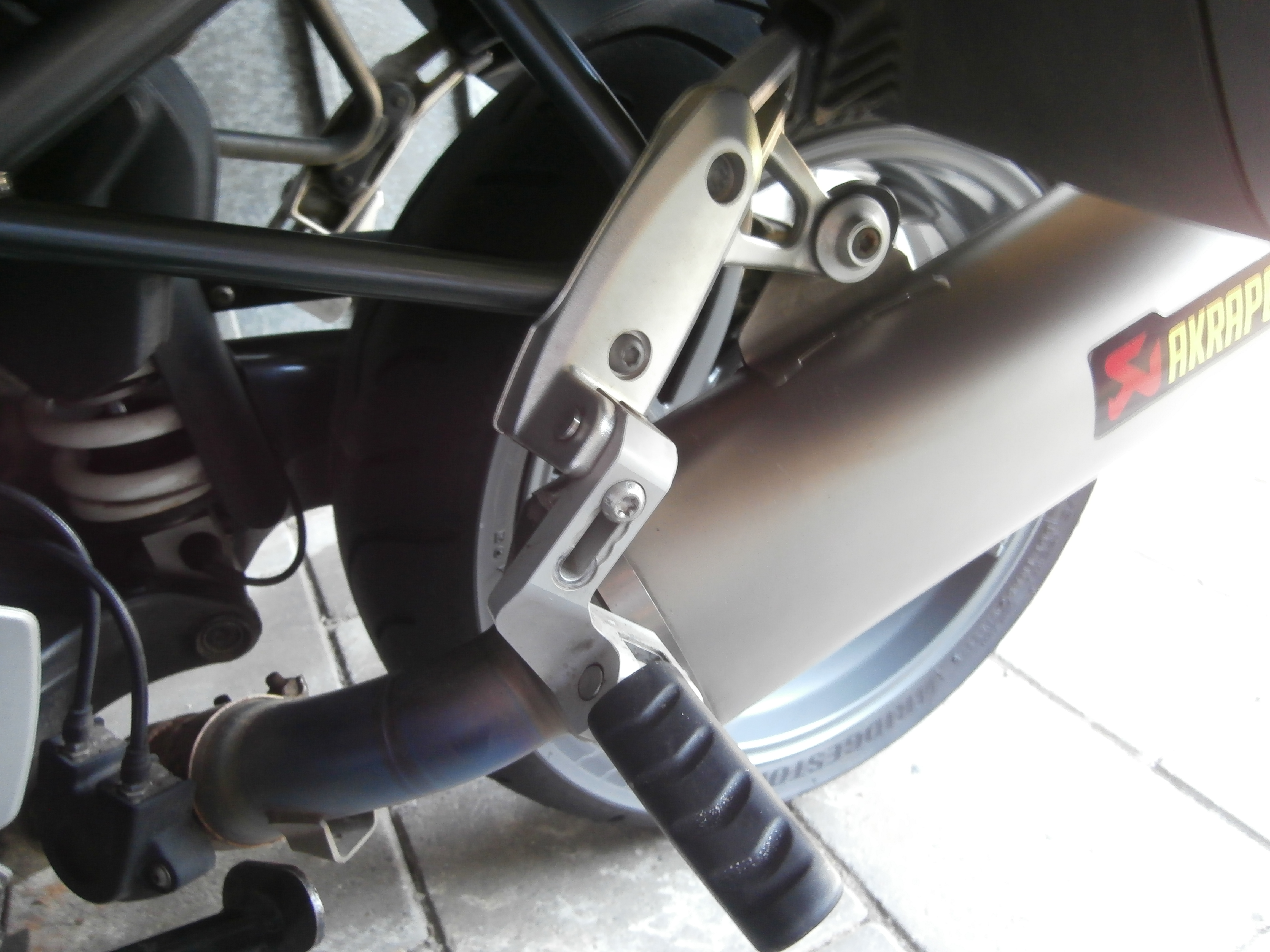 Motorcycle Footrest lowering set